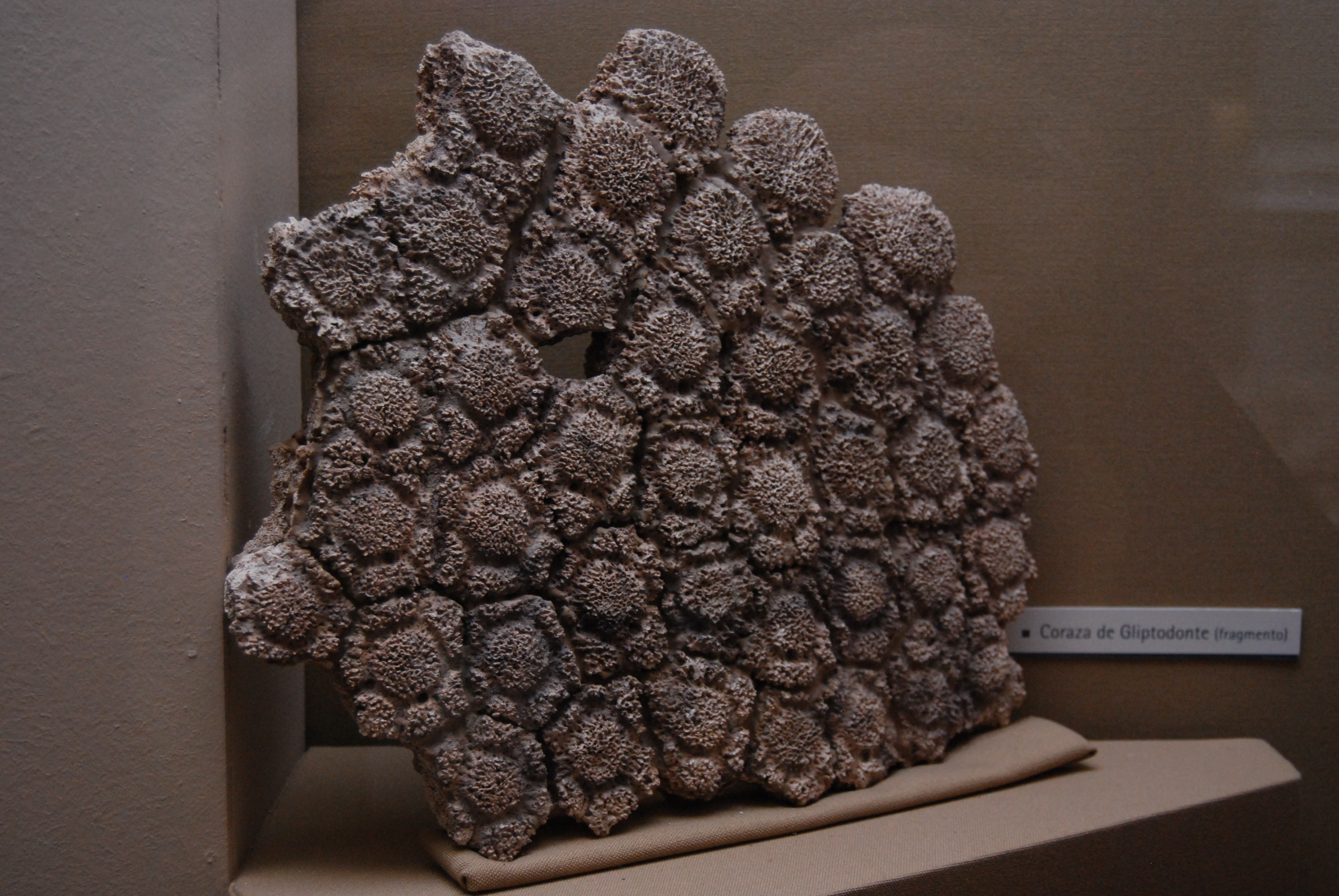 portion of a Glyptotonts armor shell